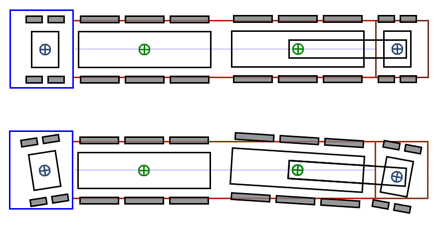 Simplified diagram of a en:4-6-6-4 locomotive with Mallet-style articulation. Color key: Blue: Cab Red: Boiler Brown: Smokebox Gray: Wheels (driving wheels are larger) Black: Wheel framework The lower diagram shows how the various wheels move when the locomotive enters a curve. The rear driving wheels are fixed in place. The boiler sticks out to one side of the locomotive in a curve.